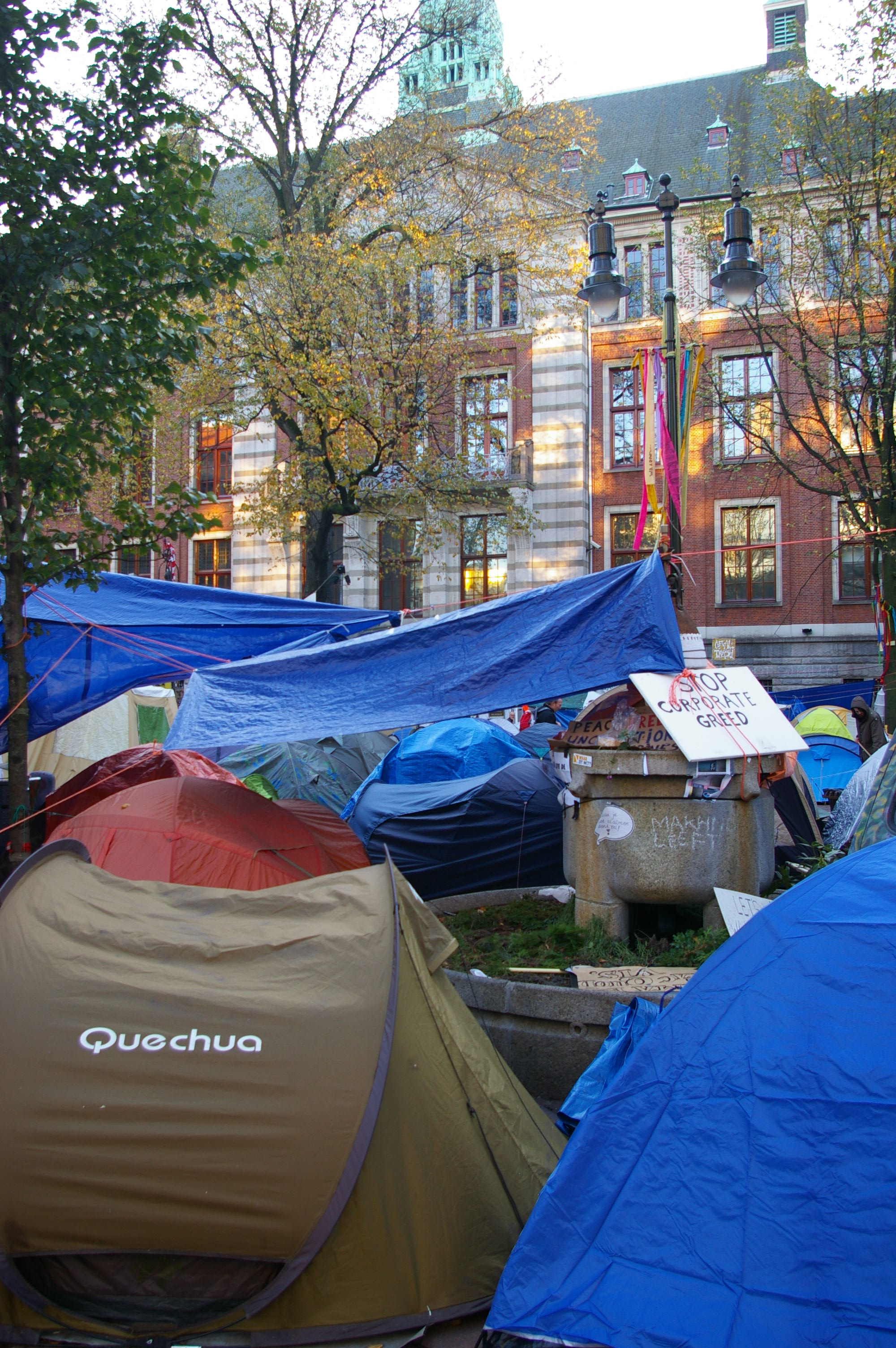 Tents of the Occupy-movement in front of the Stock Exchange building, Beursplein, Amsterdam.